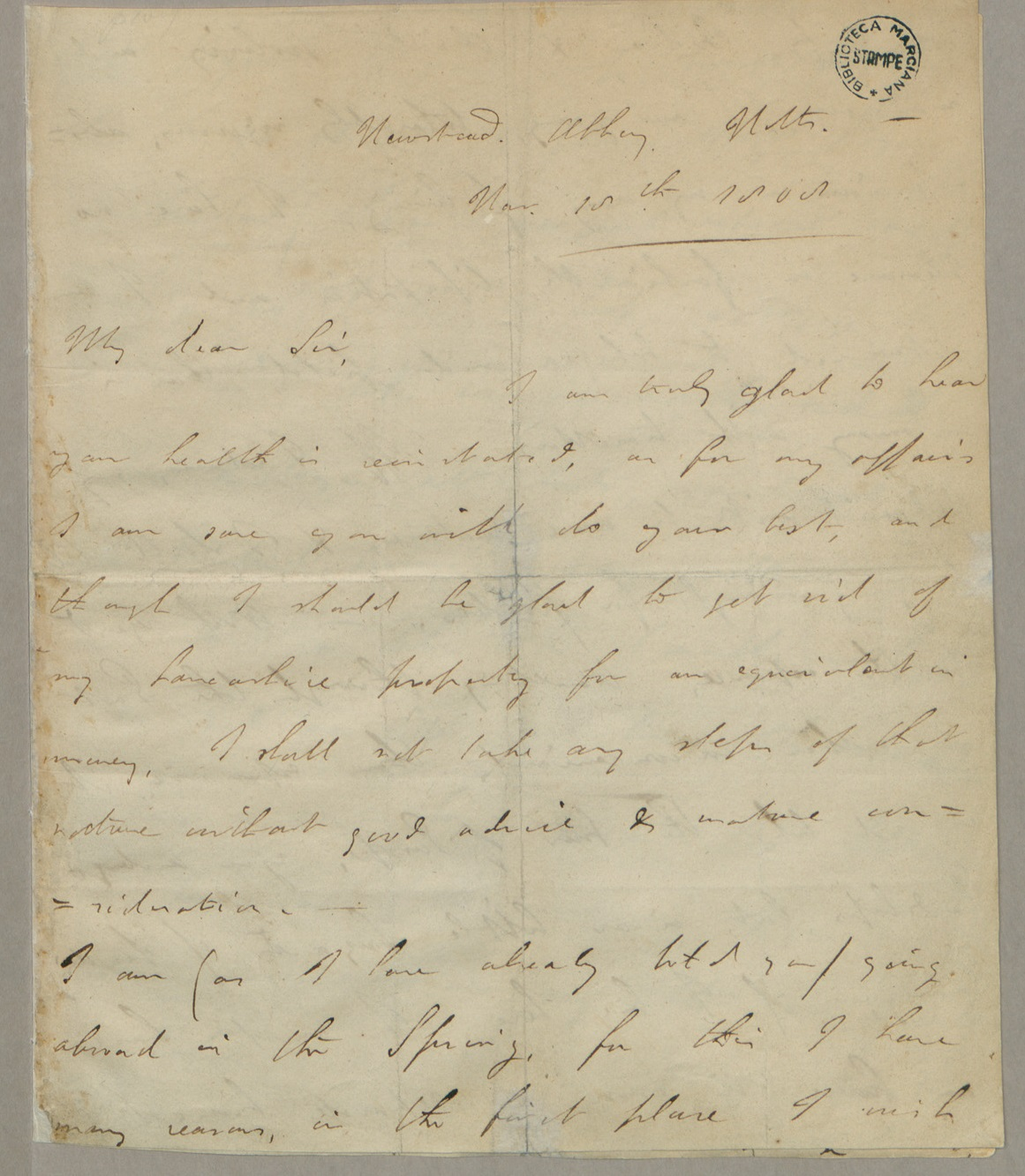 Handwritten letter of George Gordon Byron